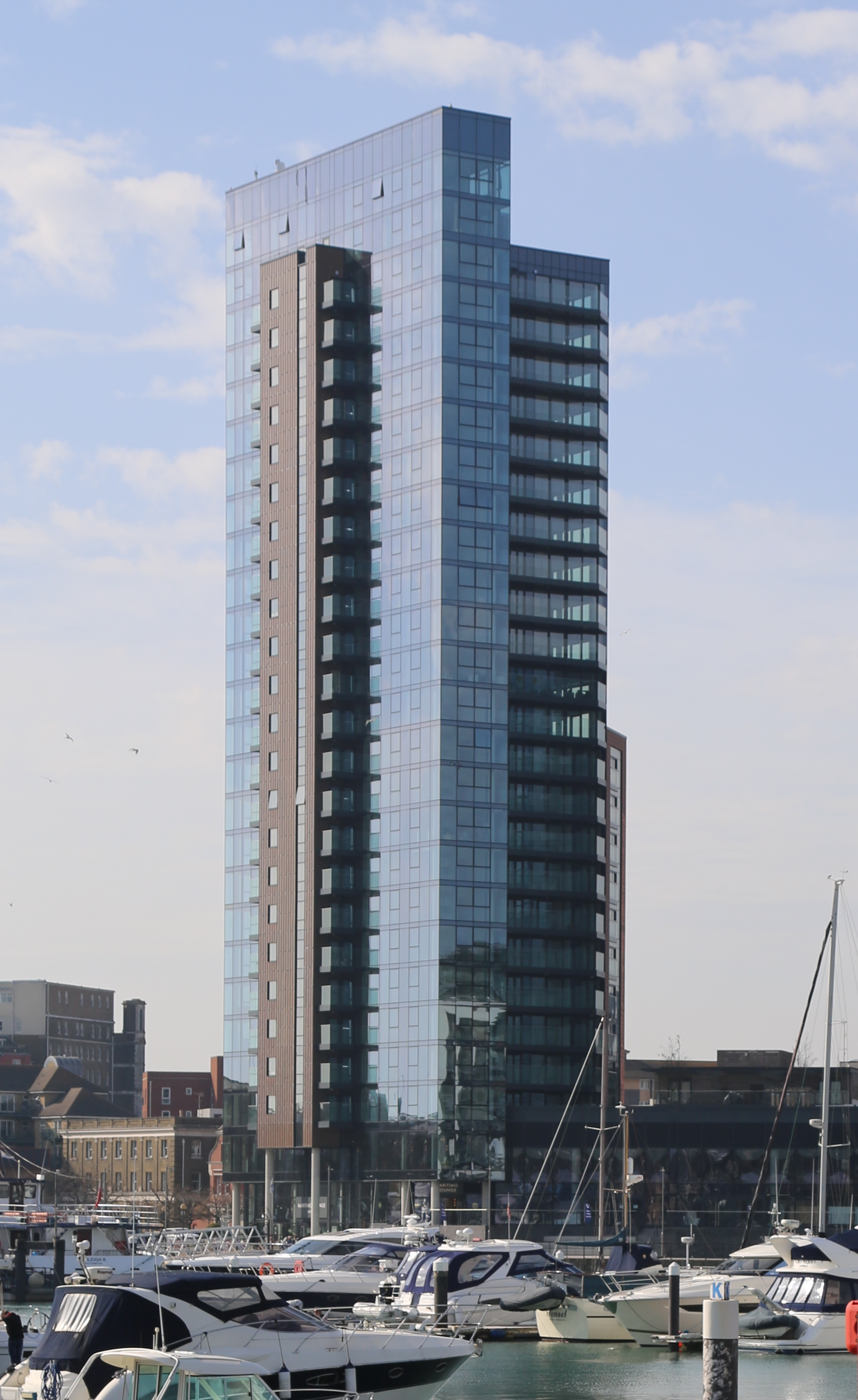 Photo of Moresby Tower taken across ocean village marina